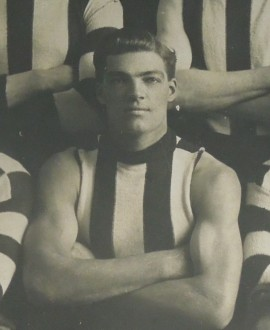 Photograph of Bill Walton in 1919